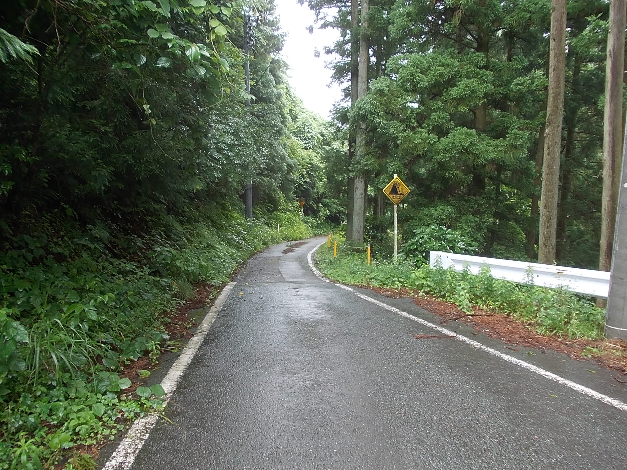 Shizuoka prefectural Route 81, Shimada, Shizuoka